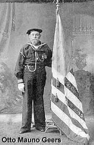 Sailor Otto Mauno Geers during the United States civil war. Geers was one of the Finnish soldiers in the Union navy during the civil war. He participated to the battle of New Orleans.